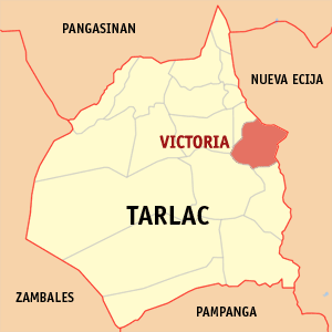 Map of Tarlac showing the location of Victoria